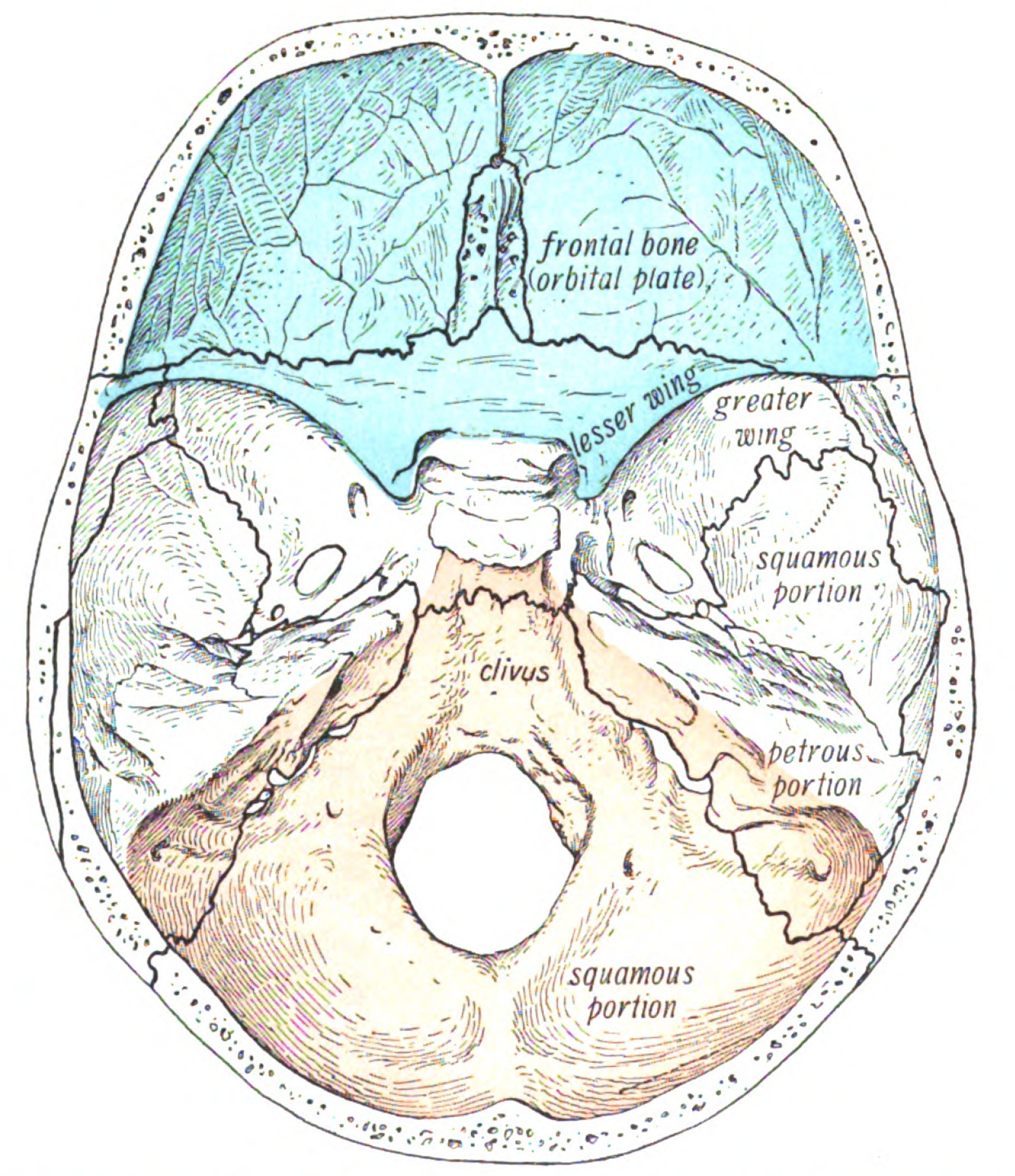 An anatomical illustration from the 1909 edition of Sobotta's Human anatomy with English terminology